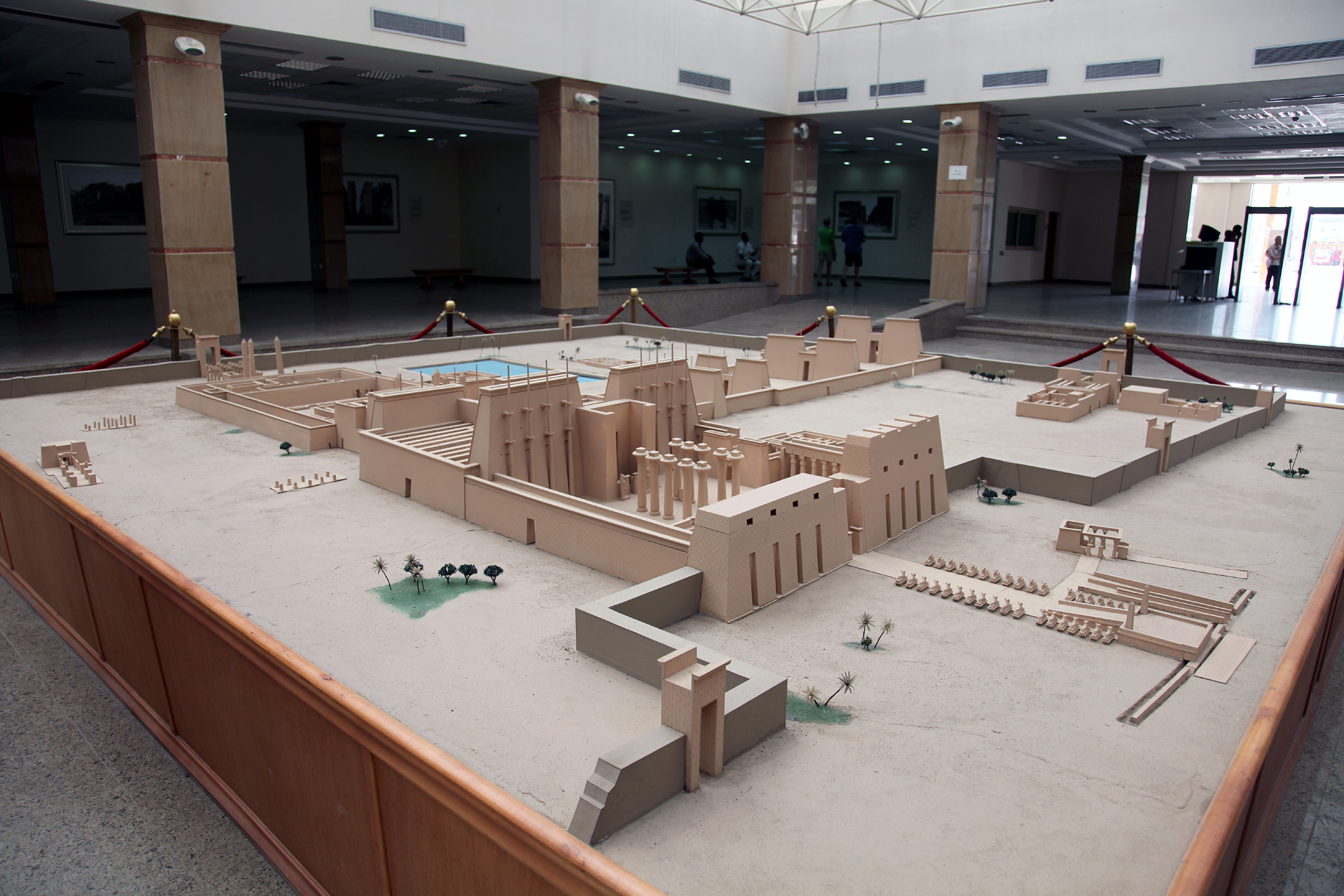 Model of the Precinct of Amun-Re, Visitor Center in Karnak, Egypt